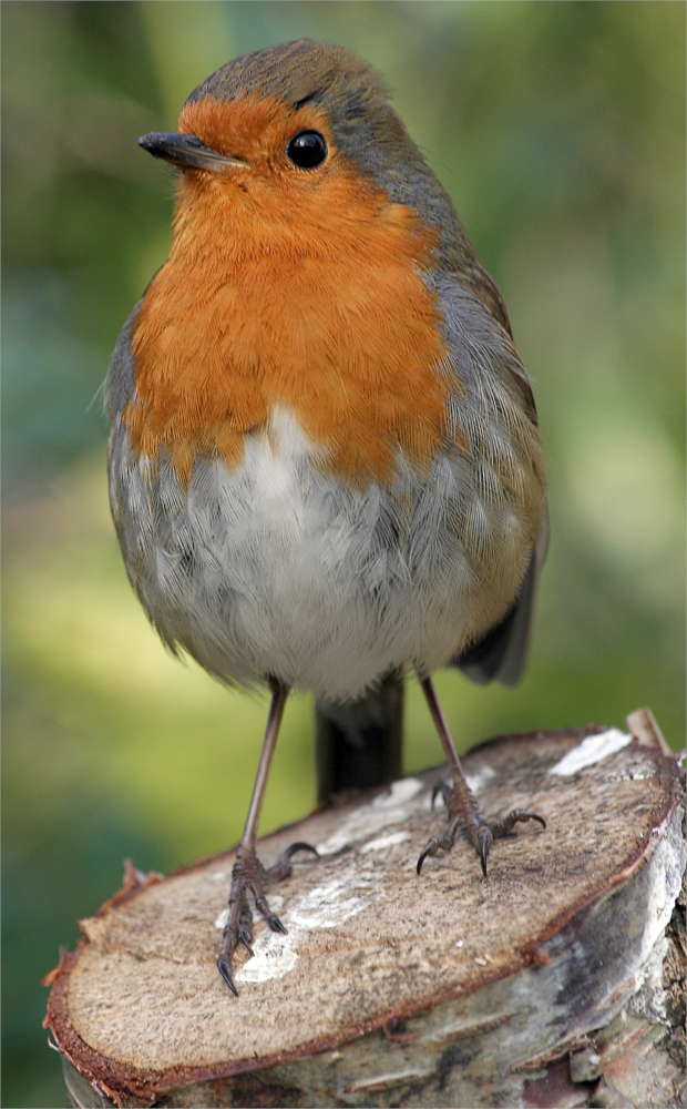 Erithacus rubecula melophilus (British Robin) photographed in Merrion Square, Dublin, Ireland by David Jordan.